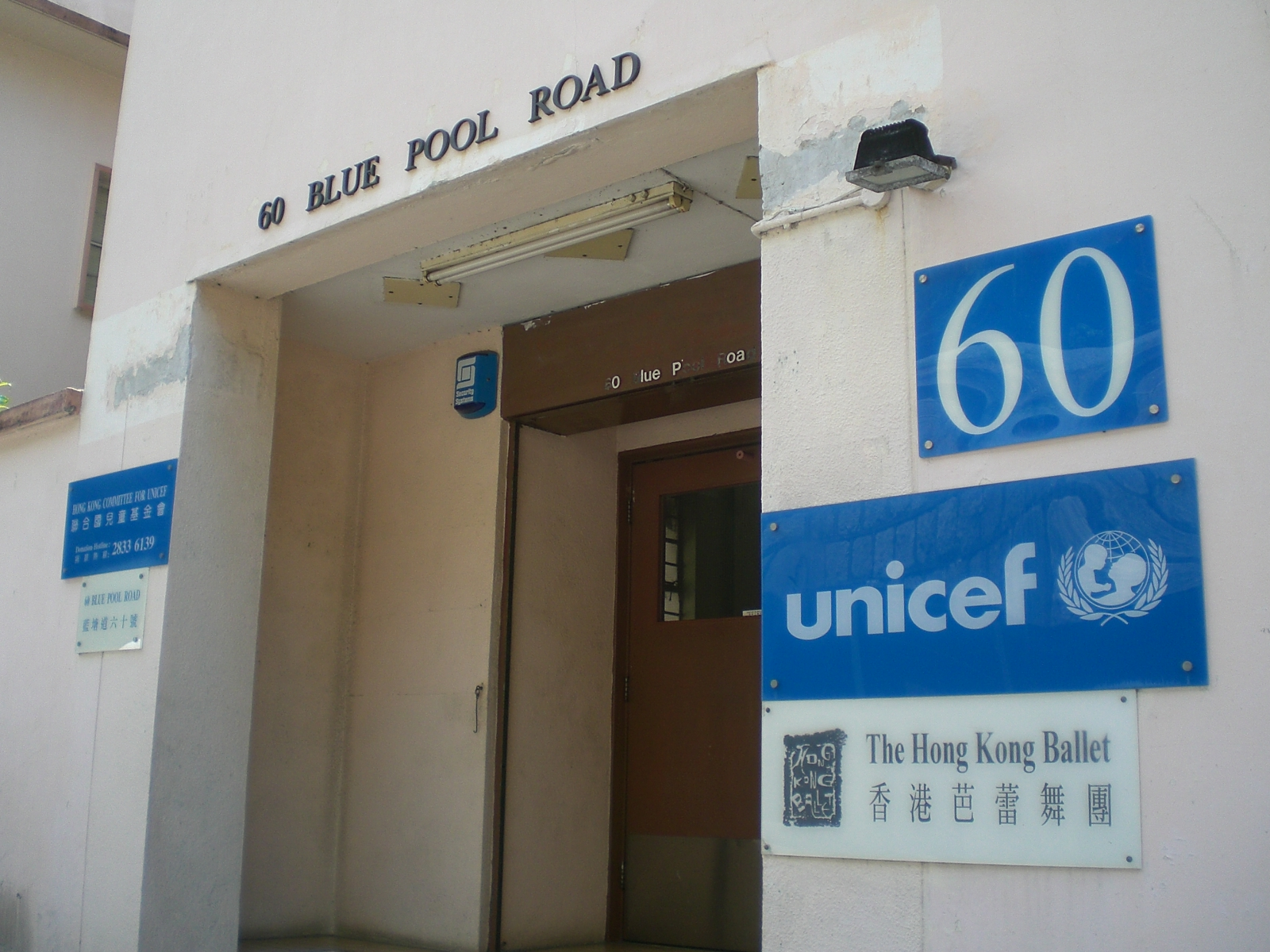 跑馬地藍塘道60號, 香港芭蕾舞團Hong Kong Ballet及聯合國兒童基金會United Nations Children's Fund會址